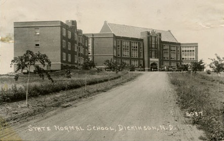 Photograph of May and Stickney Halls at the State Normal School at Dickinson, North Dakota This work is in the public domain because it was published in the United States between 1923 and 1963 and although there may or may not have been a copyright notice, the copyright was not renewed. Unless its author has been dead for the required period, it is copyrighted in the countries or areas that do not apply the rule of the shorter term for US works, such as Canada (50 pma), Mainland China (50 pma, not Hong Kong or Macao), Germany (70 pma), Mexico (100 pma), Switzerland (70 pma), and other countries with individual treaties. See Commons:Hirtle chart for further explanation. This work is in the public domain because it was published in the United States between 1923 and 1977 and without a copyright notice. Unless its author has been dead for several years, it is copyrighted in jurisdictions that do not apply the rule of the shorter term for US works, such as Canada (50 p.m.a.), Mainland China (50 p.m.a., not Hong Kong or Macao), Germany (70 p.m.a.), Mexico (100 p.m.a.), Switzerland (70 p.m.a.), and other countries with individual treaties. See this page for further explanation.